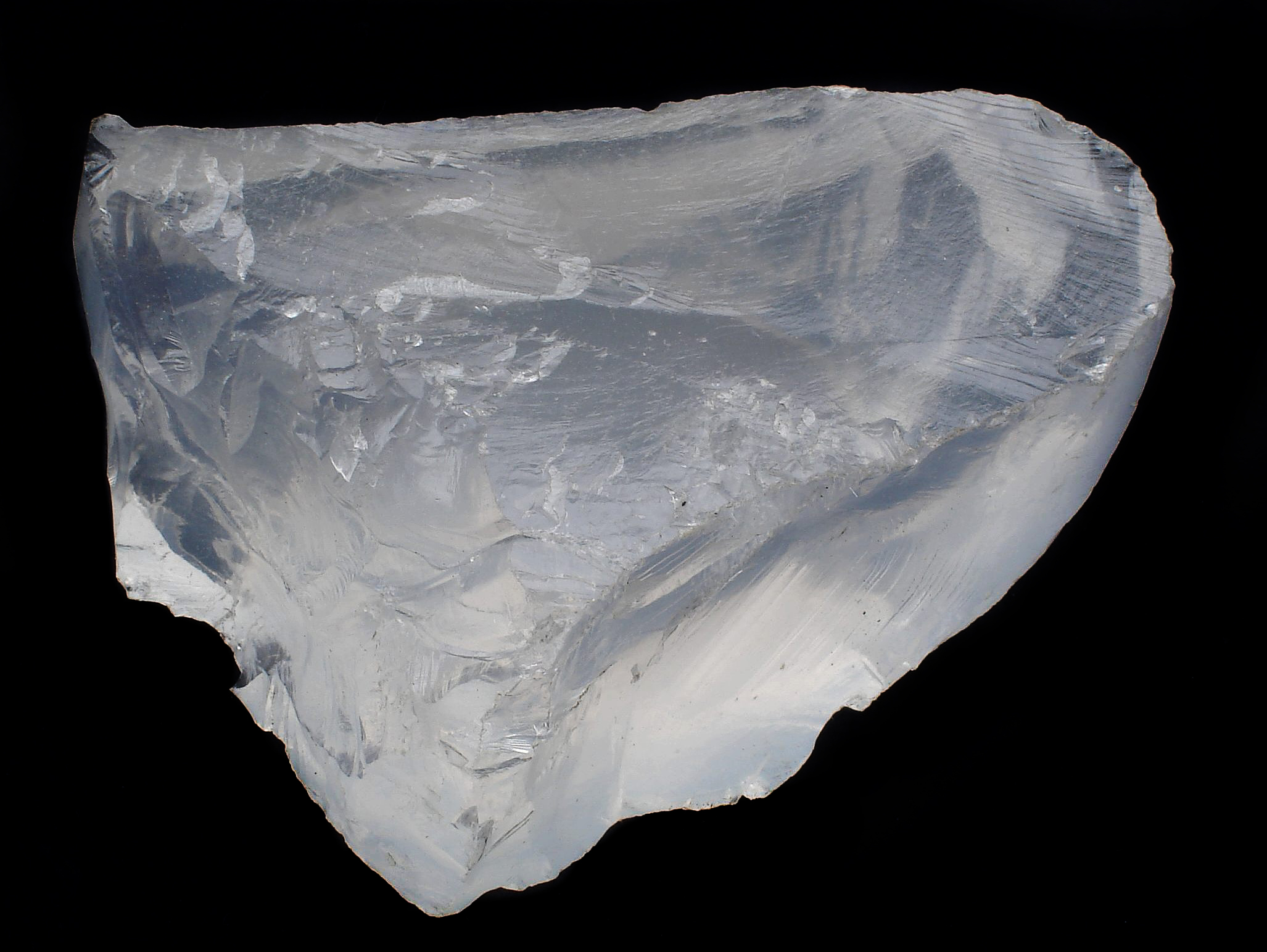 A 3 x 4 cm fragment of Petalite (LiAlSi4O10)from Minas Gerais State, Brazil.